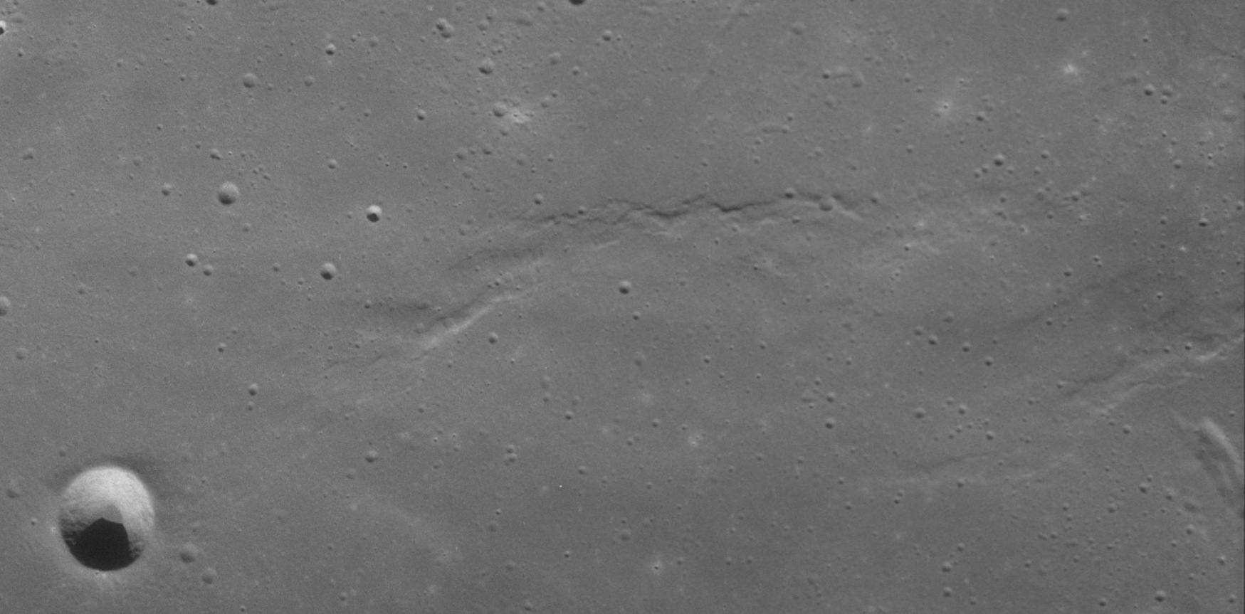 Slightly oblique view of the wrinkle ridges Dorsa Cato, Mare Fecunditatis, on the moon, with north at the right. The small crater in the lower left corner is Messier B.